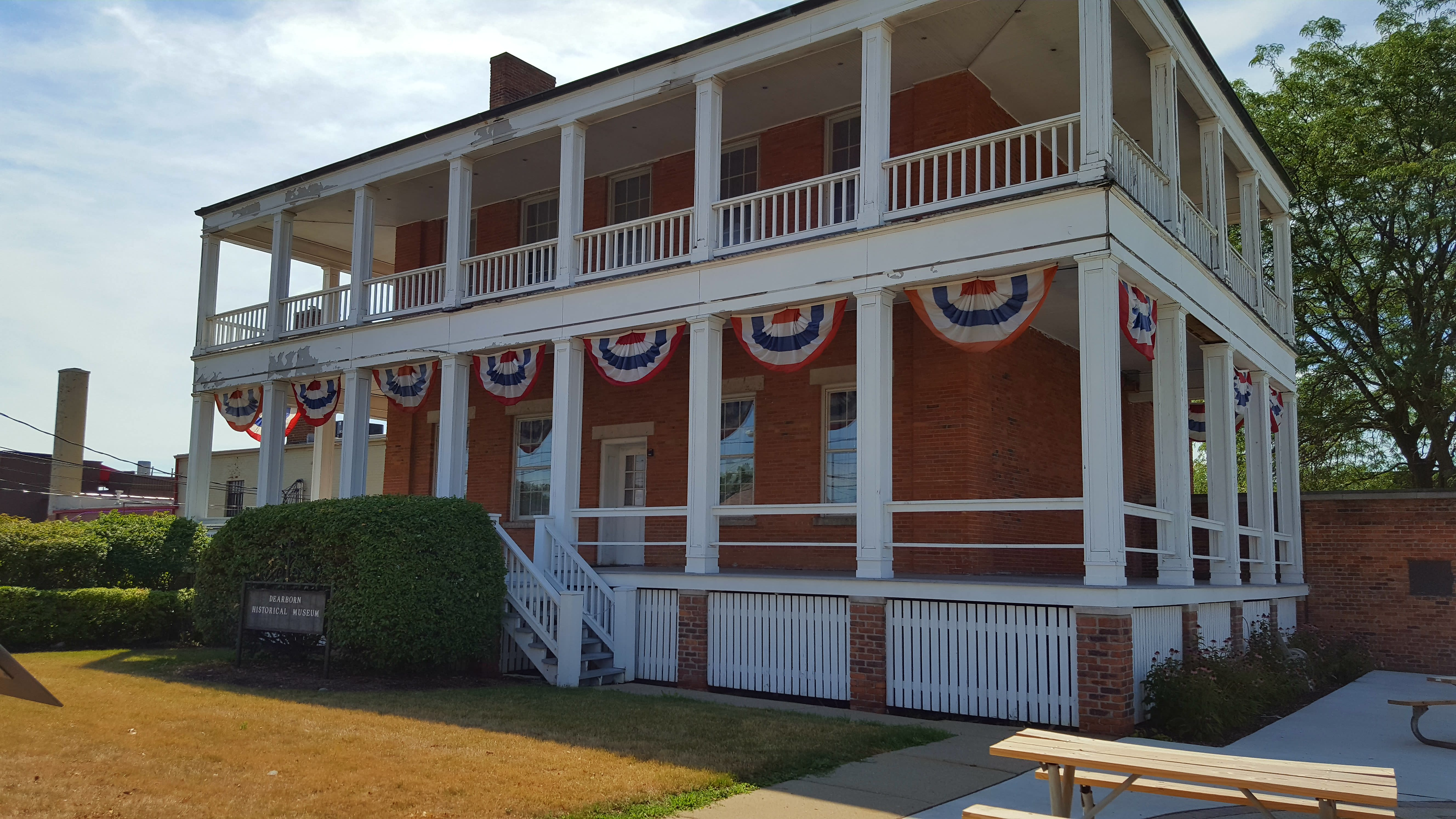 Rear view, Commandant's Quarters, Dearborn, Michigan